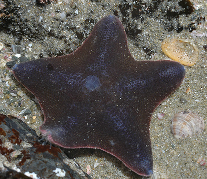 Patiriella regularis, Mangawhai Heads, Auckland, NZ